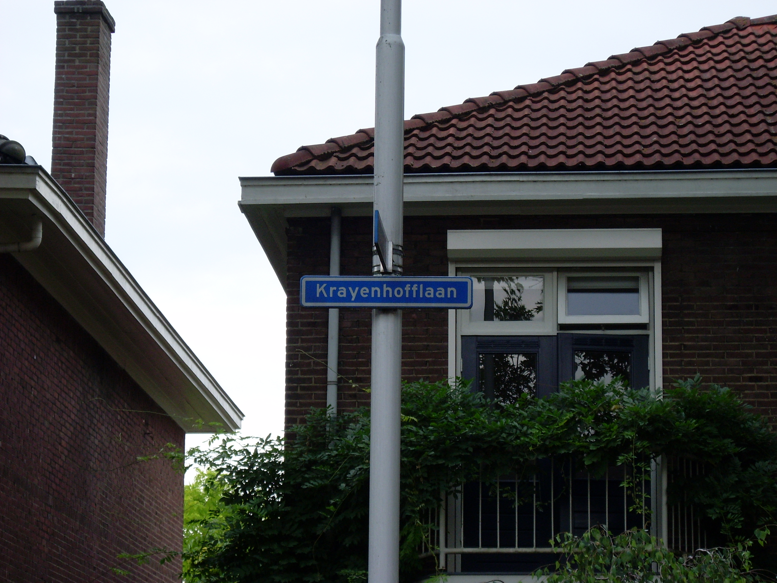 Street name sign of the Krayenhofflaan in Nijmegen (the Netherlands)